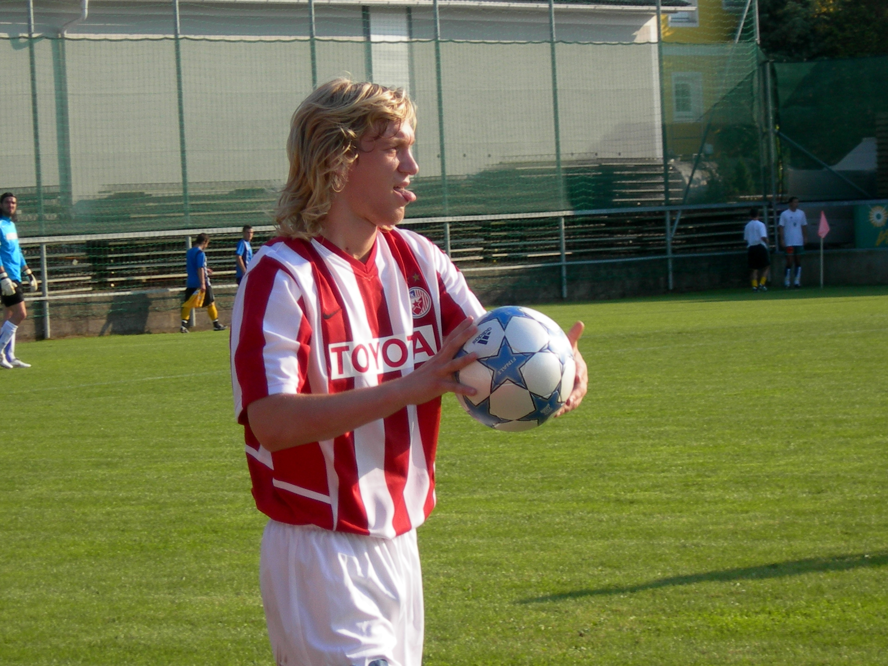 Red-Star-Belgrade-player Dušan Basta during the international pre-season friendly Red Star Belgrade (Serbia-Montenegro) vs FC Gratkorn from Austria on 7 July 2006 at the football ground in Wolfsberg im Schwarzautal (Styria / Austria)